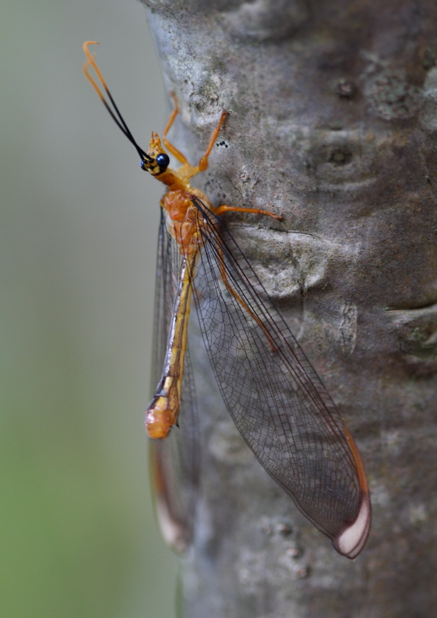 Nymphes myrmeleonides Photo by Dr. David Midgley. Location: Berowra, New South Wales, Australia. own photo.